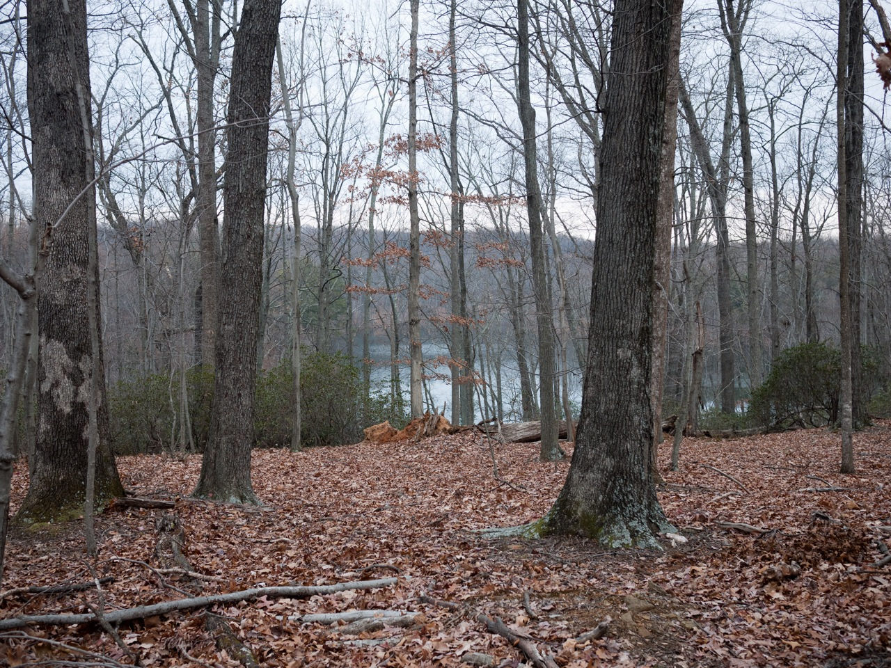 Ragged Mountain Reservoir Hike